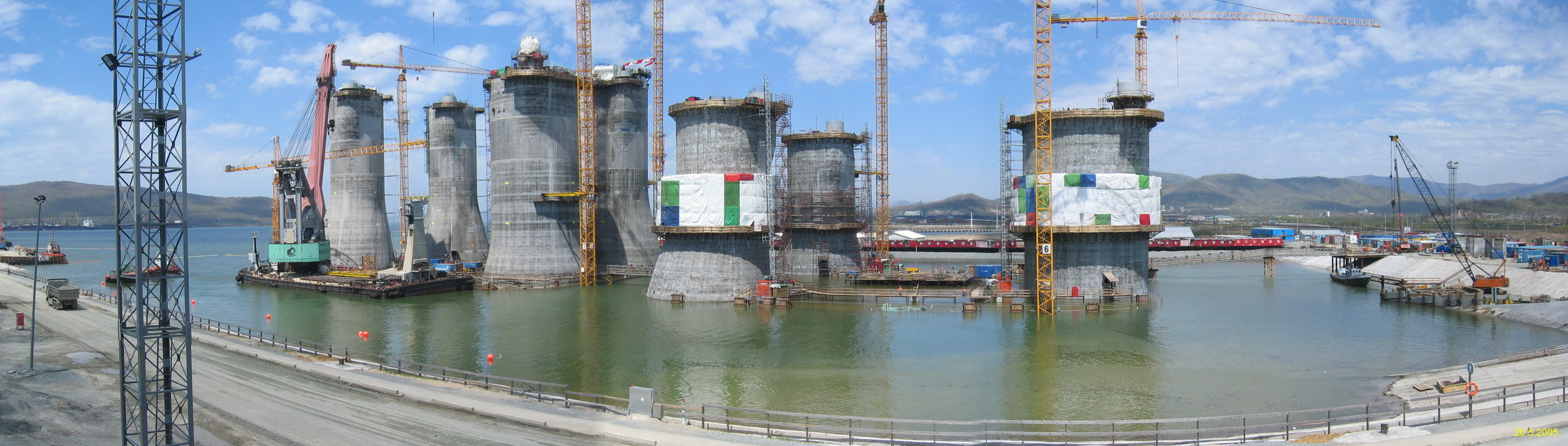 LUNA and PA-B tow out